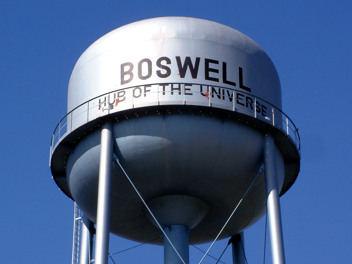 The Boswell, Indiana water tower, photographed from North Adams Street. The lettering reads, "Boswell, Hub of the Universe".